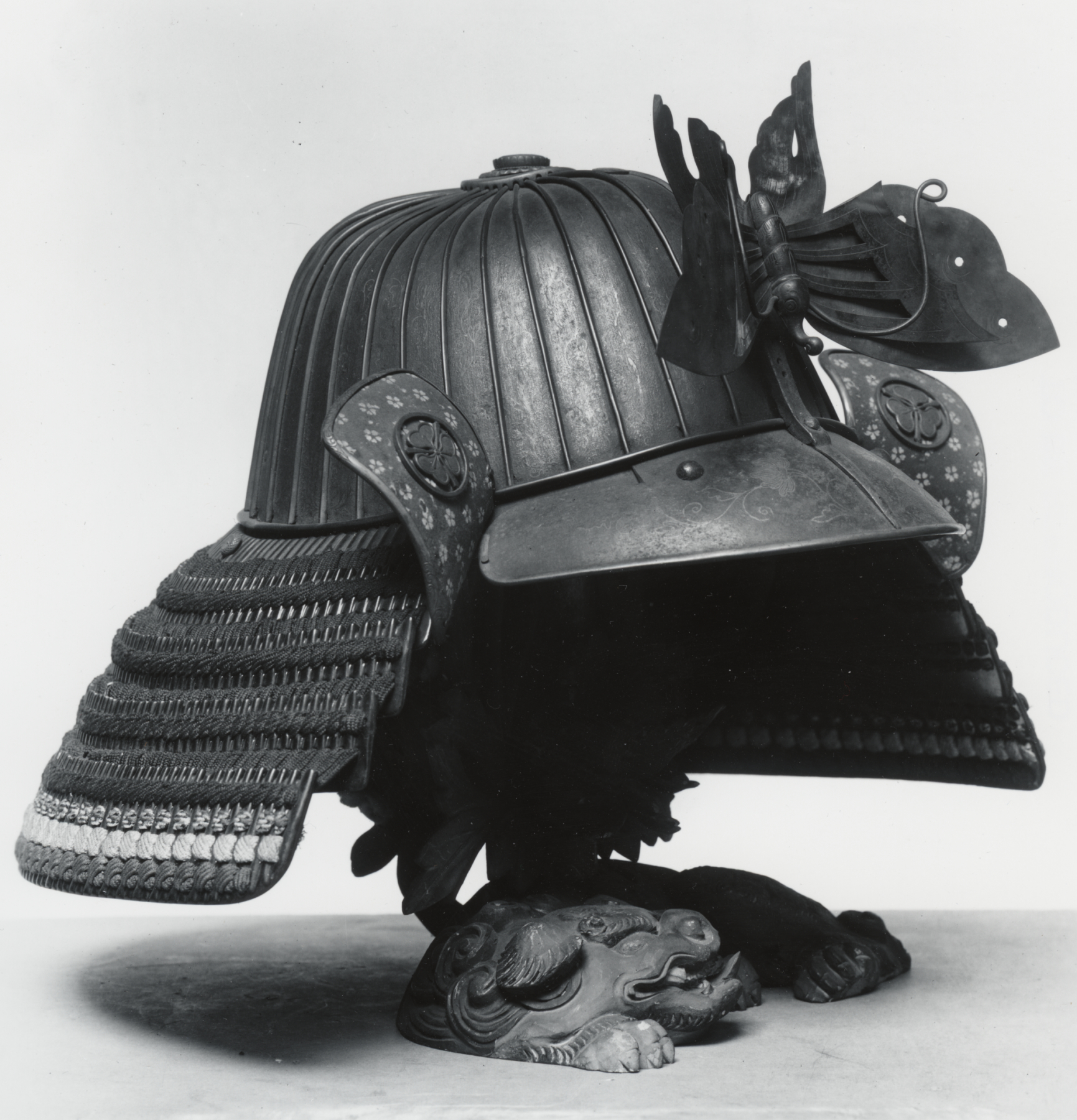 Iron "hachi" and "mabisashi" with copper and silver inlay ("ito zogan") damascene. The former with thirty-two "suji" (ridged) plates. Gold kikuza, copper buttons, ring on back. "Mon - on fukigaeshi" (blowbacks or ears) = "maru katabami" (wood sorrel). Central brass "paulownia (kiri) mon" = Fujiwara family. "Shikawara" (neck guard) laced in "kebiki" style (spread hair style) with high quality cinnabar, "ito-doshi" lacing. Five lames. Cloth lining. Riveted laminations, "zogan".